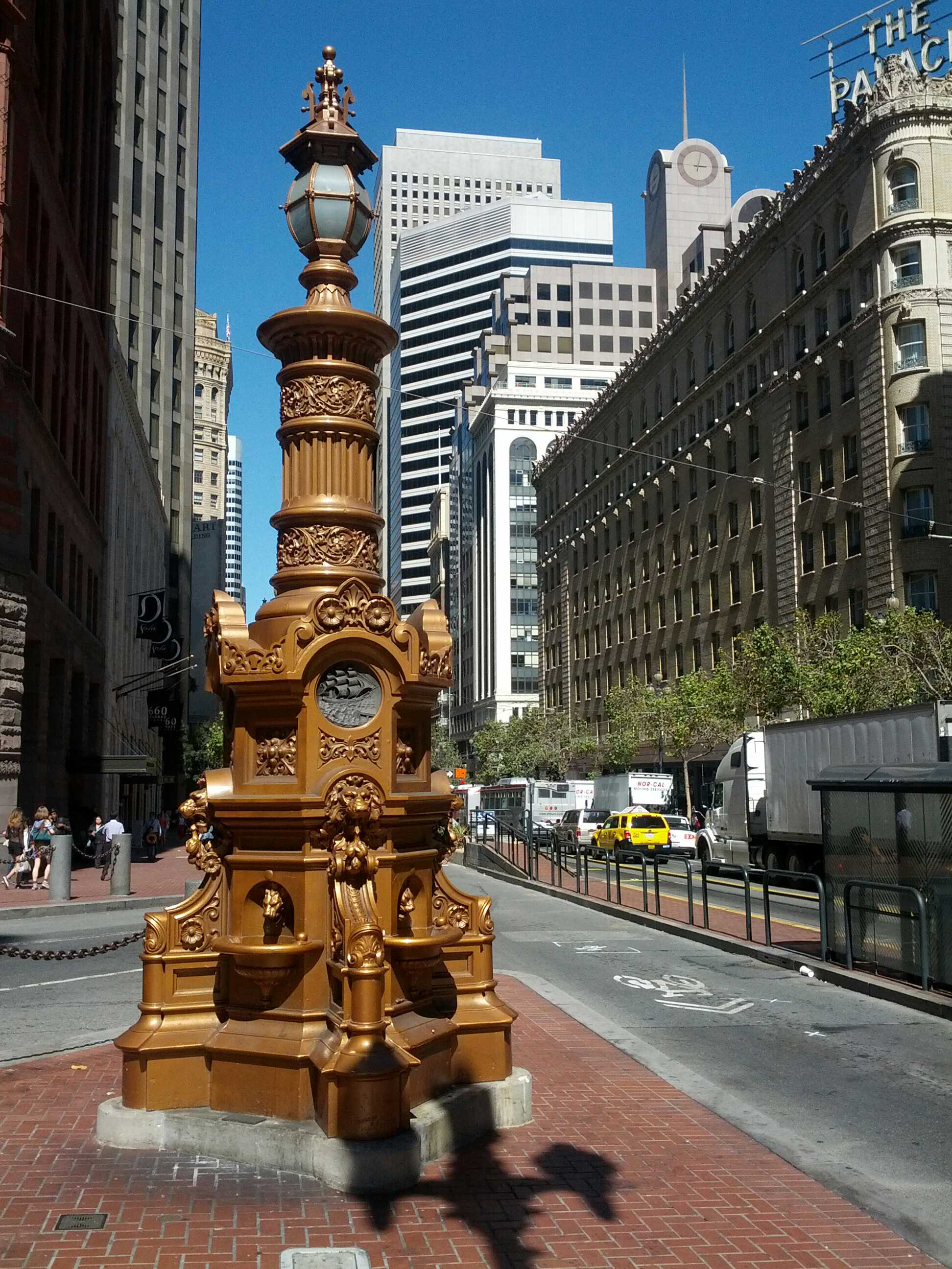 Lotta Crabtree Fountain